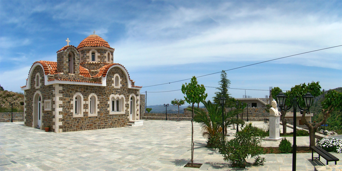 Zoniana, Crete, Greece.